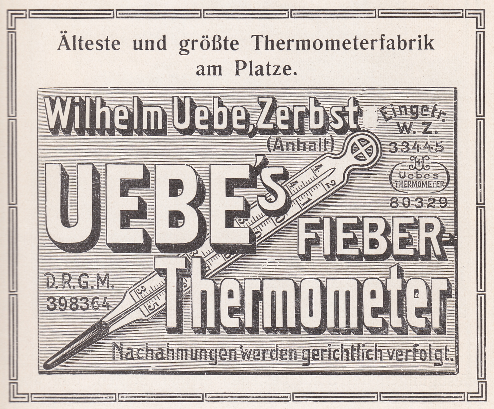 This advertisment of Wilhelm Uebe (Zerbst/Anhalt) advertised with patent and trademark. In an regional publication, 1912.